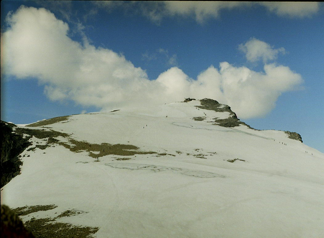 Galdhøpiggen 2,469 m (8,101 feet) Highest mountain in Norway